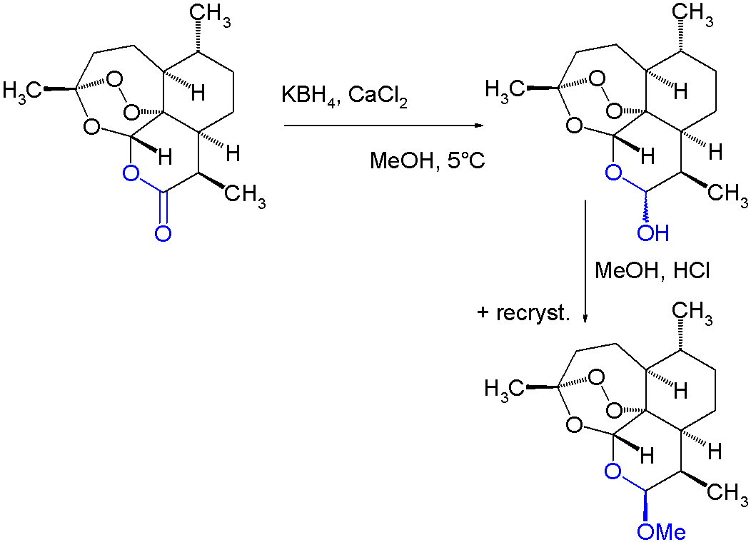 Artemether Synthesis